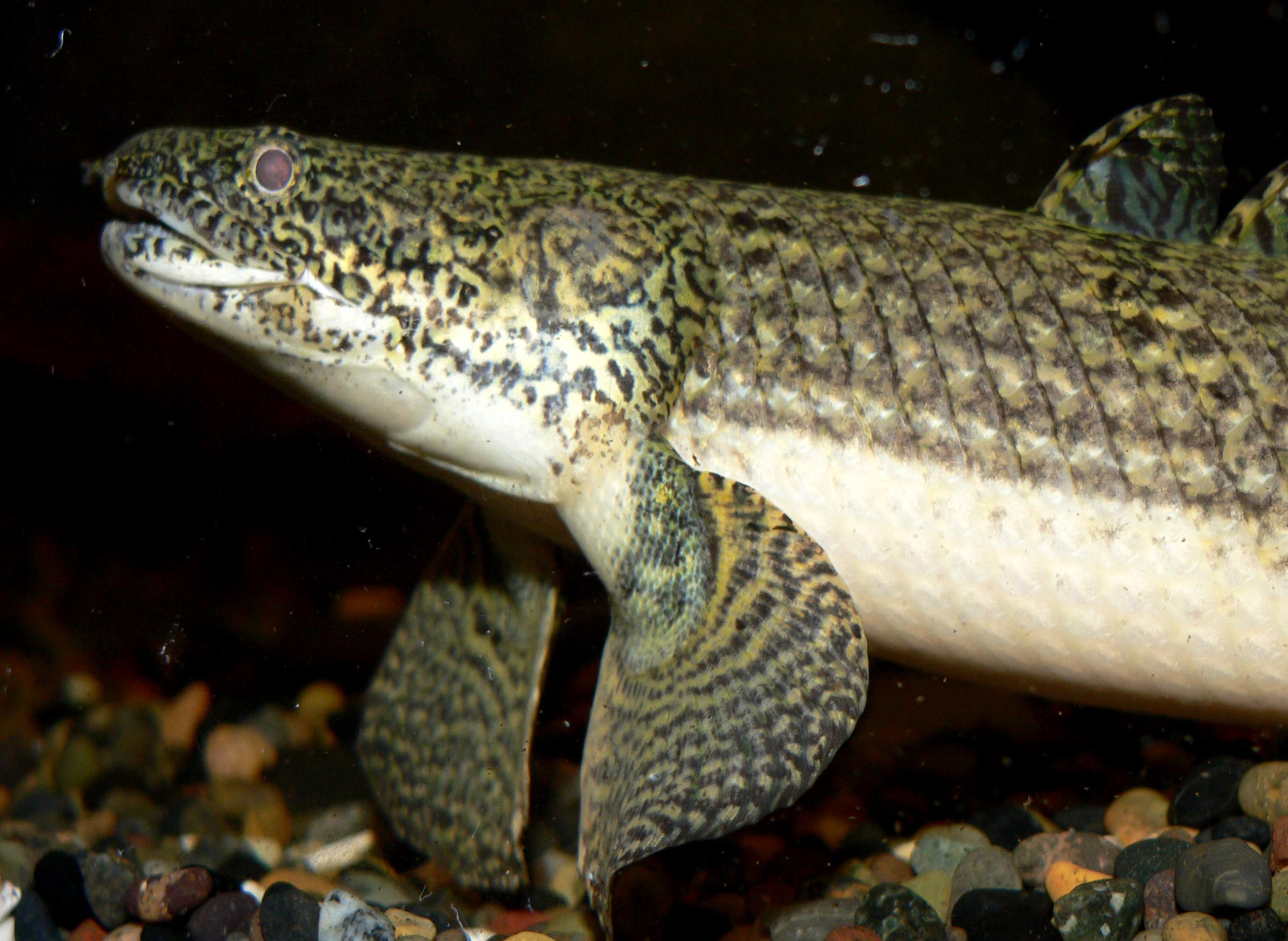 Photo of Polypterus weeksii (mottled bichir) at the Steinhart Aquarium in San Francisco